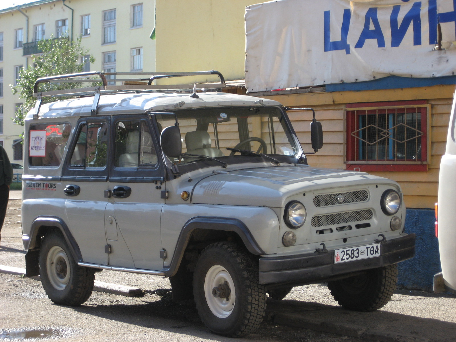 UAZ-469 in Mongolia.